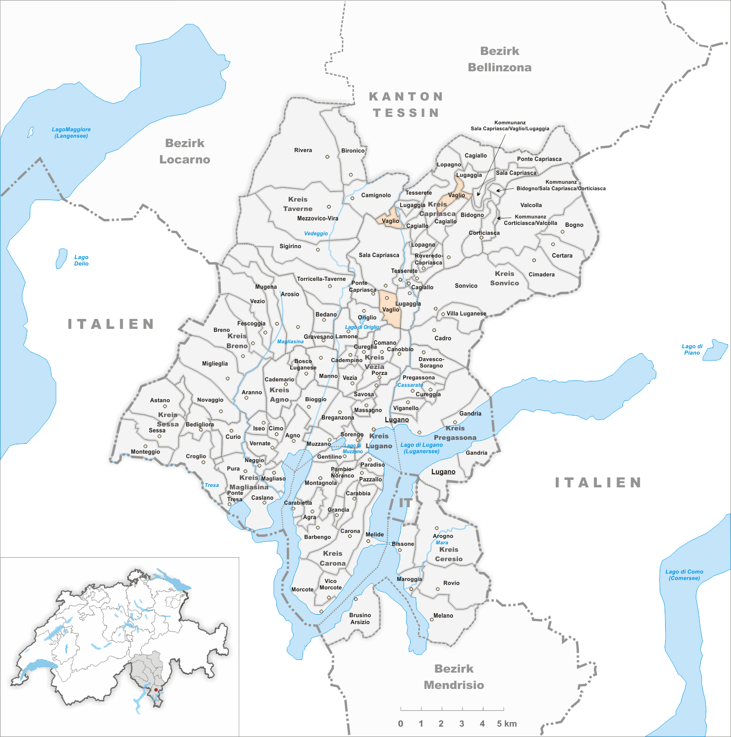 Municipality Vaglio Artist: Tschubby